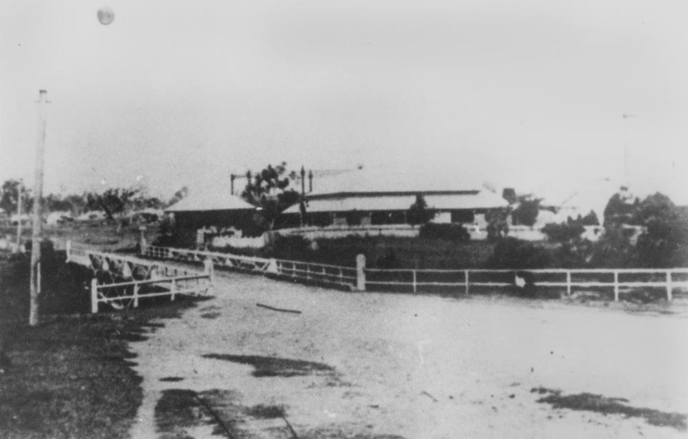 Original Kennedy Bridge, Bundaberg, 1878